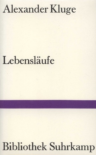 Book cover of Alexander Kluge "Lebensläufe" 1962